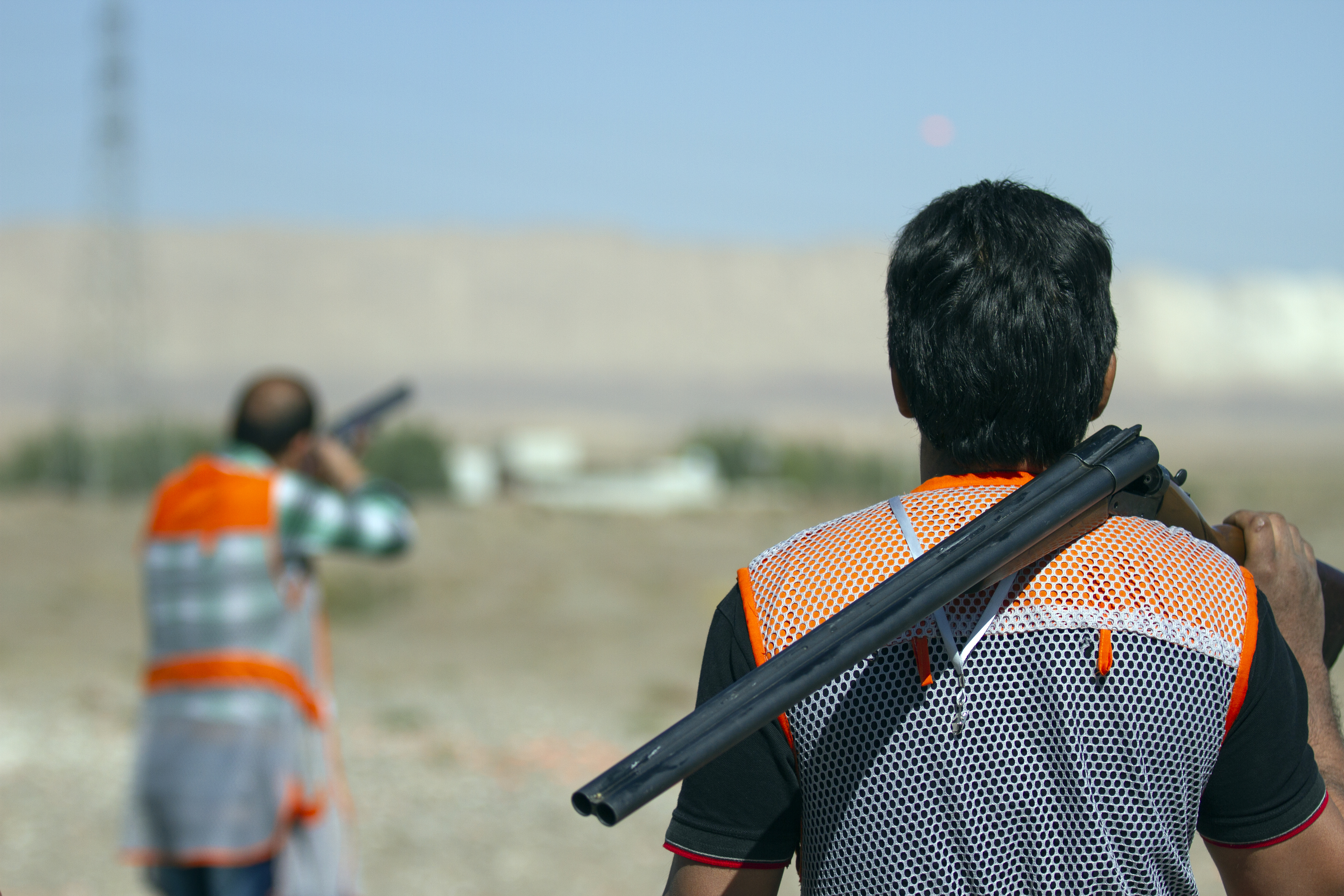 Shooting sports is a collective group of competitive and recreational sporting activities involving proficiency tests of accuracy, precision and speed in using various types of ranged weapons, mainly referring to man-portable guns and bows/crossbows.